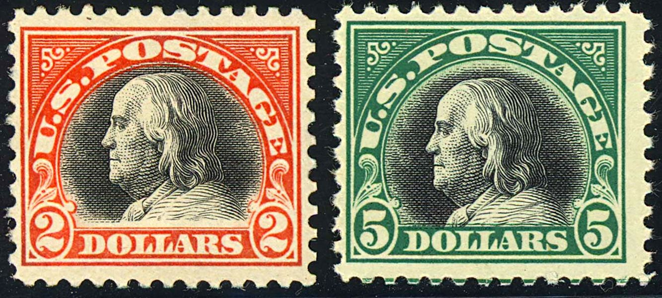 Benjamin_Franklin_2-Big-Bens_1918_Issue.jpg Benjamin Franklin